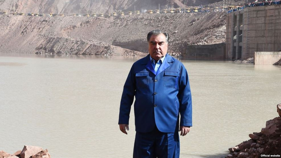 Tajik President Emomali Rahmon at the site of the Rogun Dam, Oct. 29, 2016.